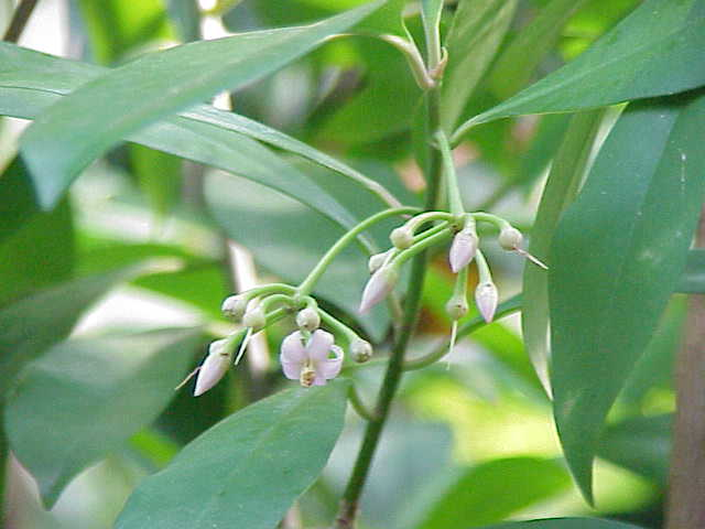 Species: Ardisia polycephala Family: Myrsinaceae Image No. 3